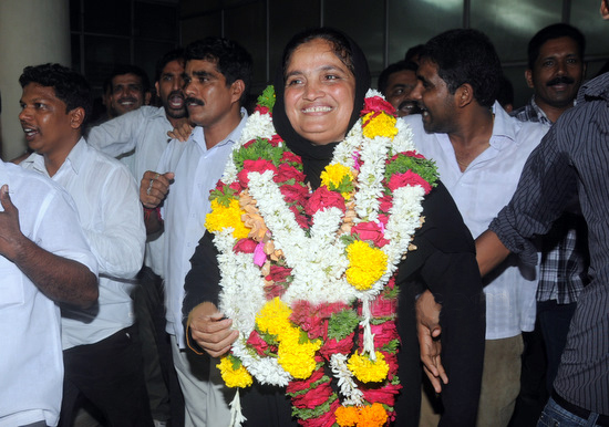 Gulzar Banu, incumbent Mayor of Mangalore